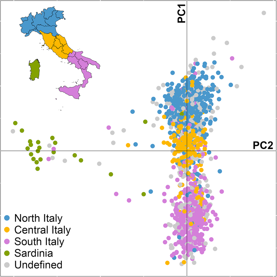 Principal Component Analysis of the Italian population. Plot of the first two principal components calculated on the Italian genotypic dataset. Each individual was labeled according to the color scheme reported in the map in the upper-left corner. The map of Italy was created using the shapefile made available by the Italian National Institute of Statistics (ISTAT; )